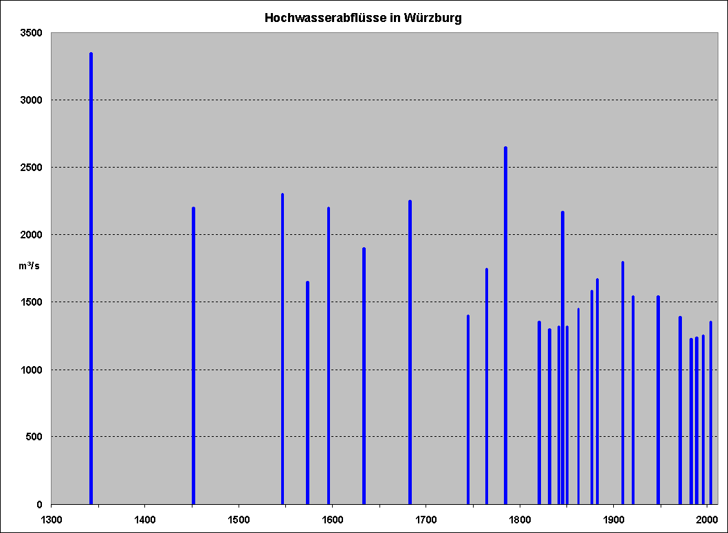 High water flowings in Würzburg